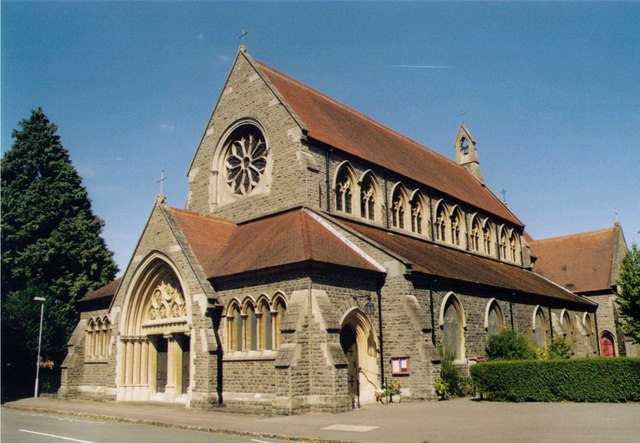 All Saints' Church in Downshire Square, in the English town of Reading. For more information, see the wikipedia article All Saints church, Reading.